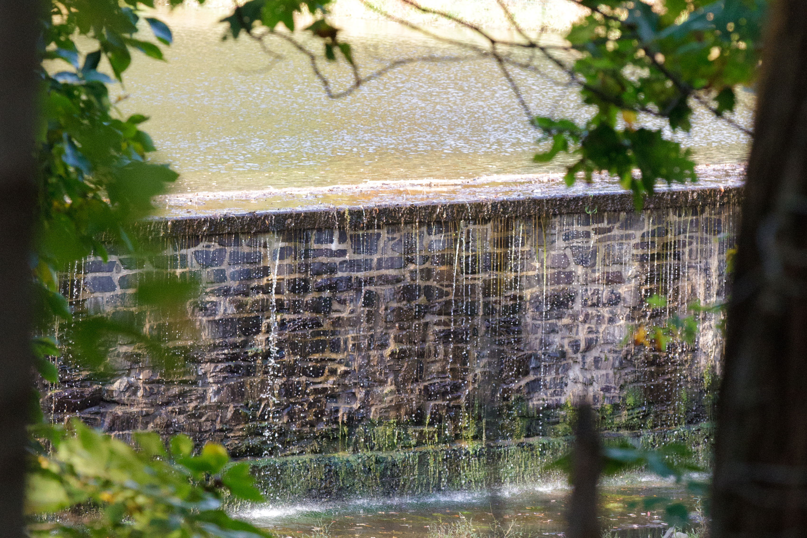 The upper dam of the Princeton Ice Company, built in 1902. Now part of the Mountain Lakes Preserve in Princeton, New Jersey